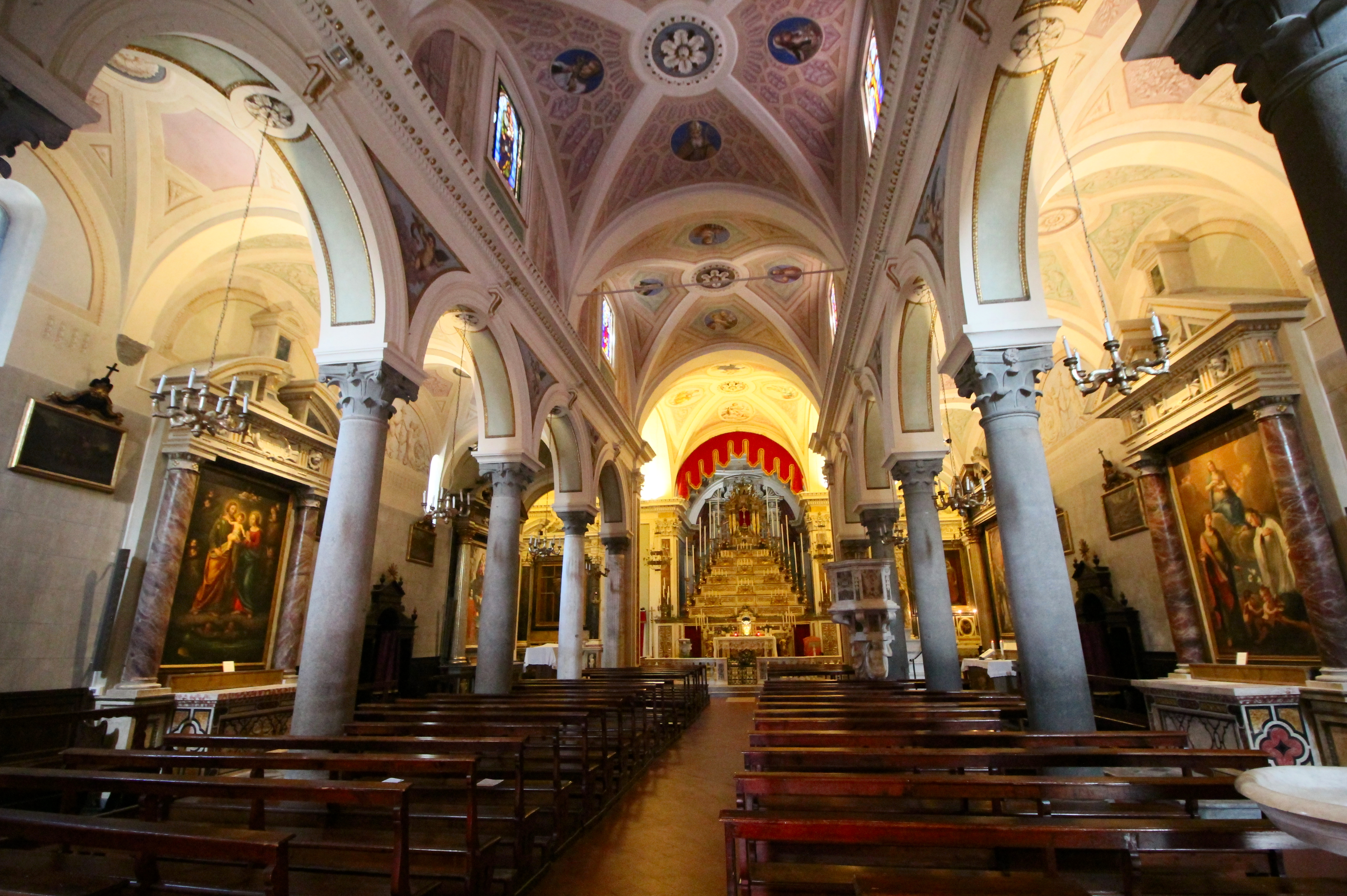 Church San Lorenzo, Segromigno in Monte, hamlet of Capannori, Province of Lucca, Tuscany, Italy